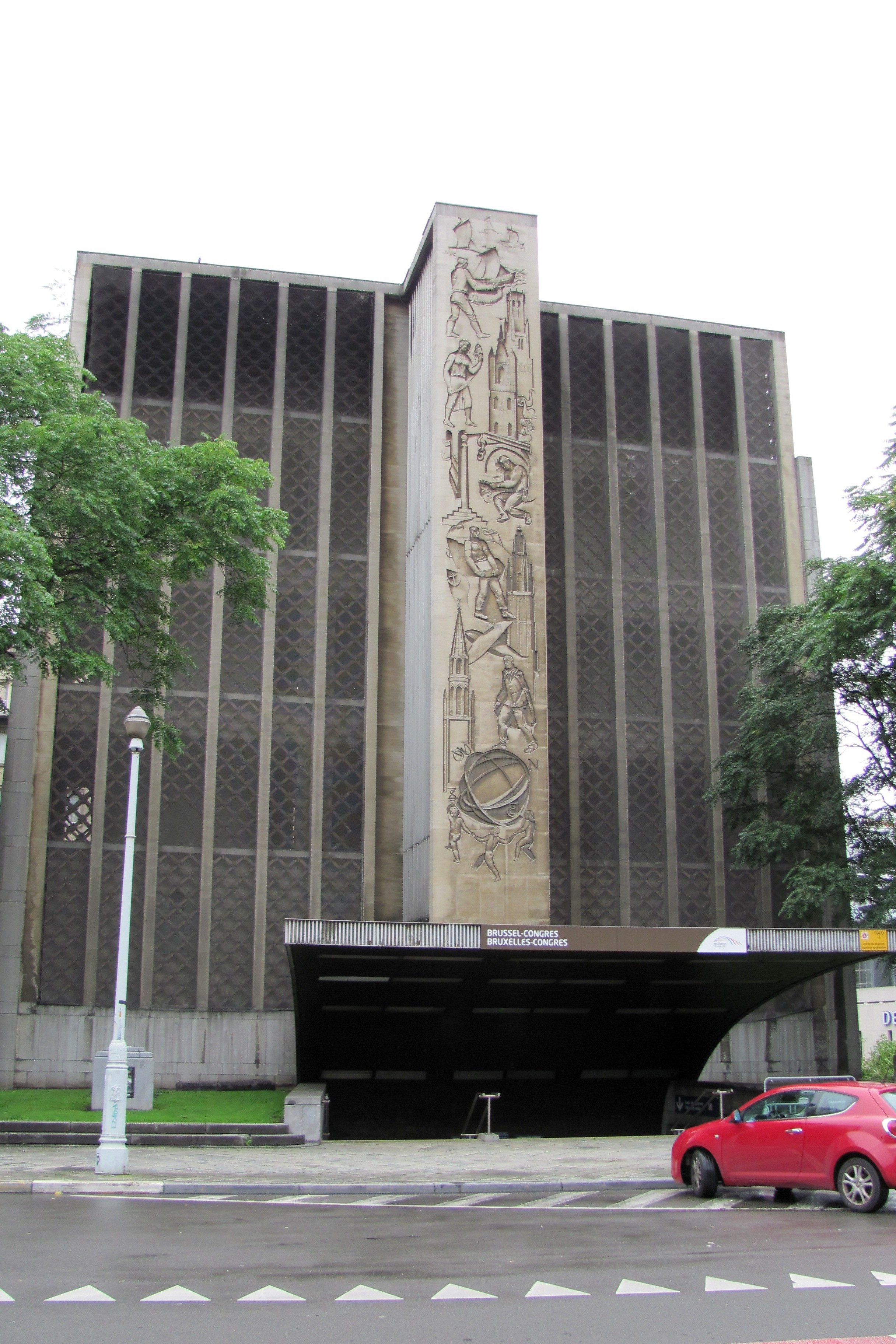 Station Brussels-Congress